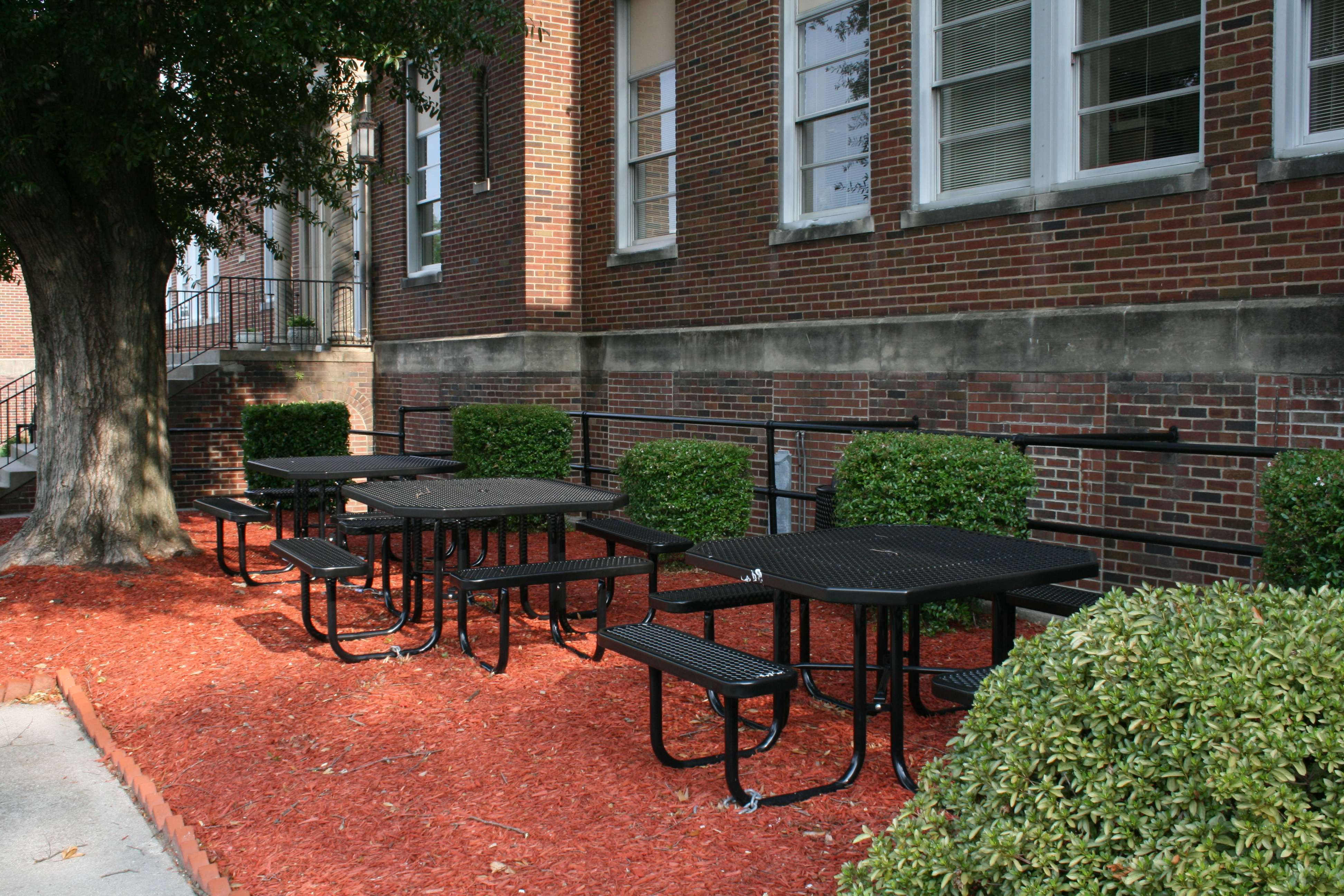 Picnic tables outside the Durham Public Schools Central Services in Durham, North Carolina.